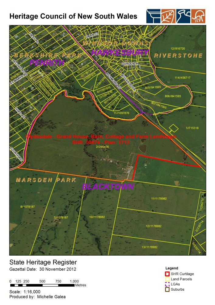 Clydesdale, Marsden Park: SHR Plan No. 1713